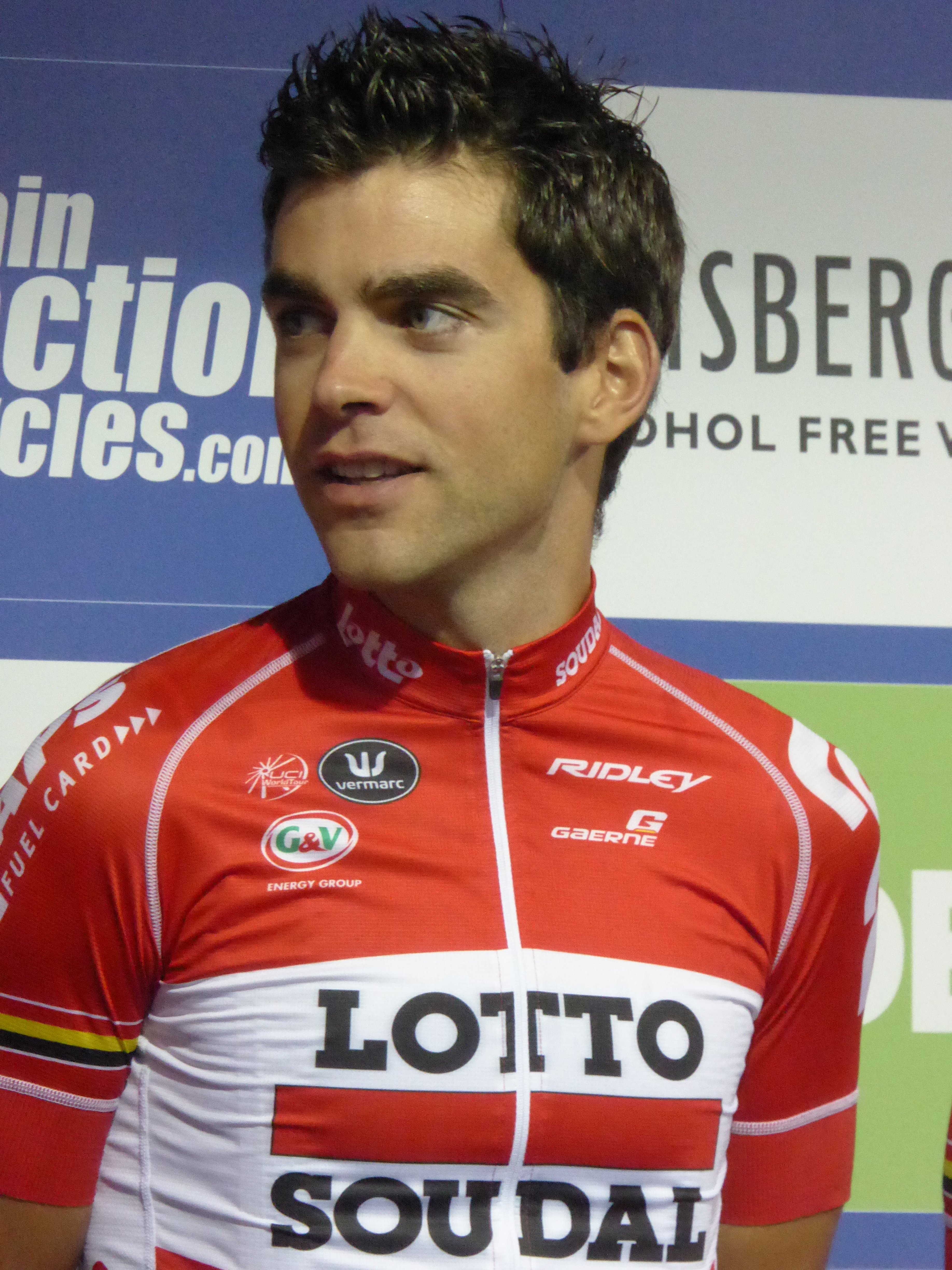 Tony Gallopin (Lotto-Soudal), pictured at the 2016 Tour of Britain team presentation in Glasgow on 3 September 2016.